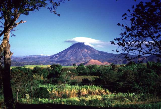 Chingo volcano in Guatemala/El Salvador Photo by Giuseppina Kysar, 1999 (Smithsonian Institution). Smithsonian Institution is administered by the U.S. government. Photos taken by Smithsonian Institution's employees are thus without restriction. (confirmed by Mr. Edward Venzke from Smithsonian Institution)